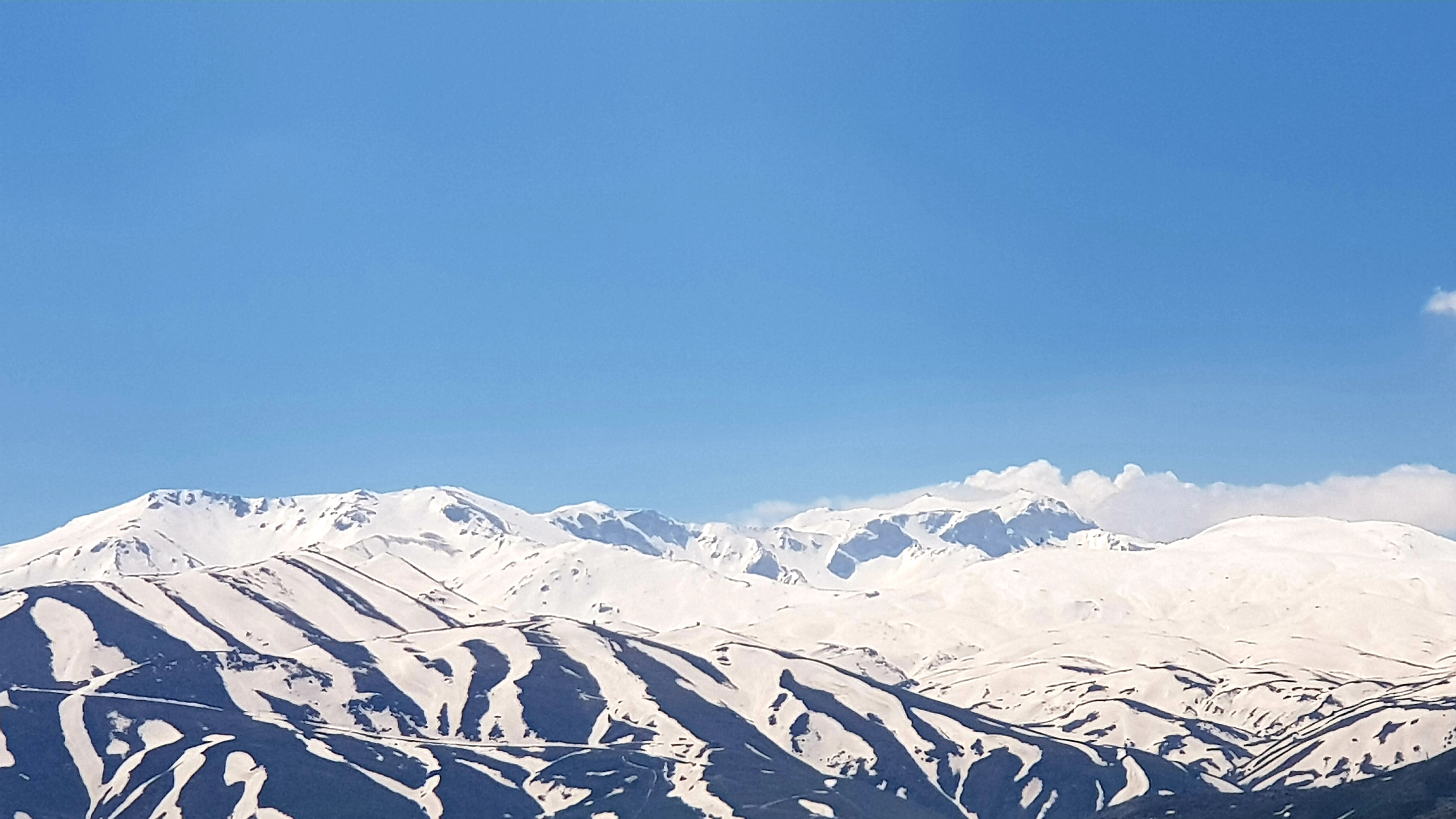 Mount haj ebrahim in spring